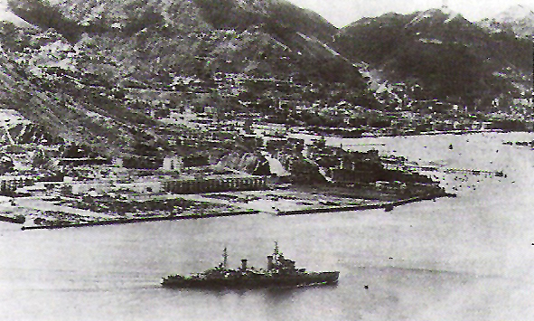 The Royal Navy cruiser HMS Swiftsure (08), entering Victoria Harbour, Hong Kong, through North Point on 30 August 1945.